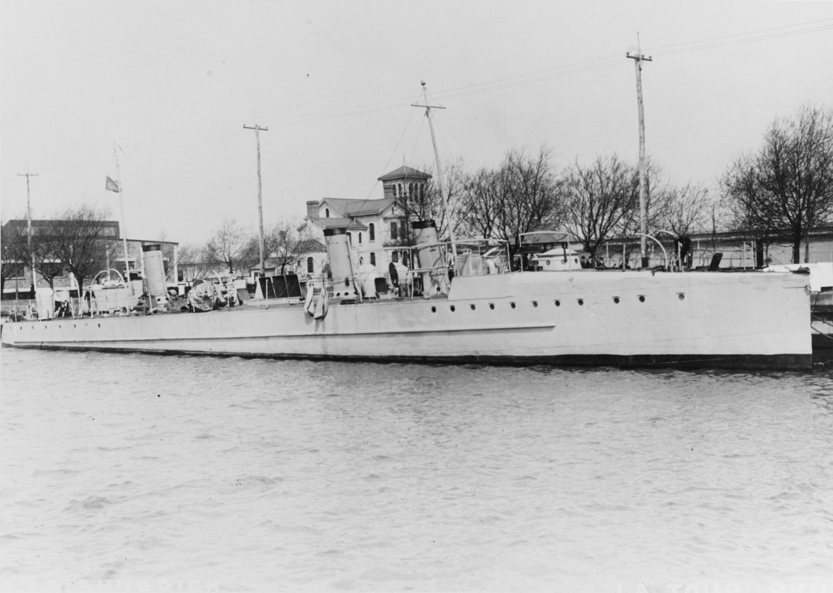 USS Shubrick at the Philadelphia Navy Yard, Pennsylvania, circa 1919.